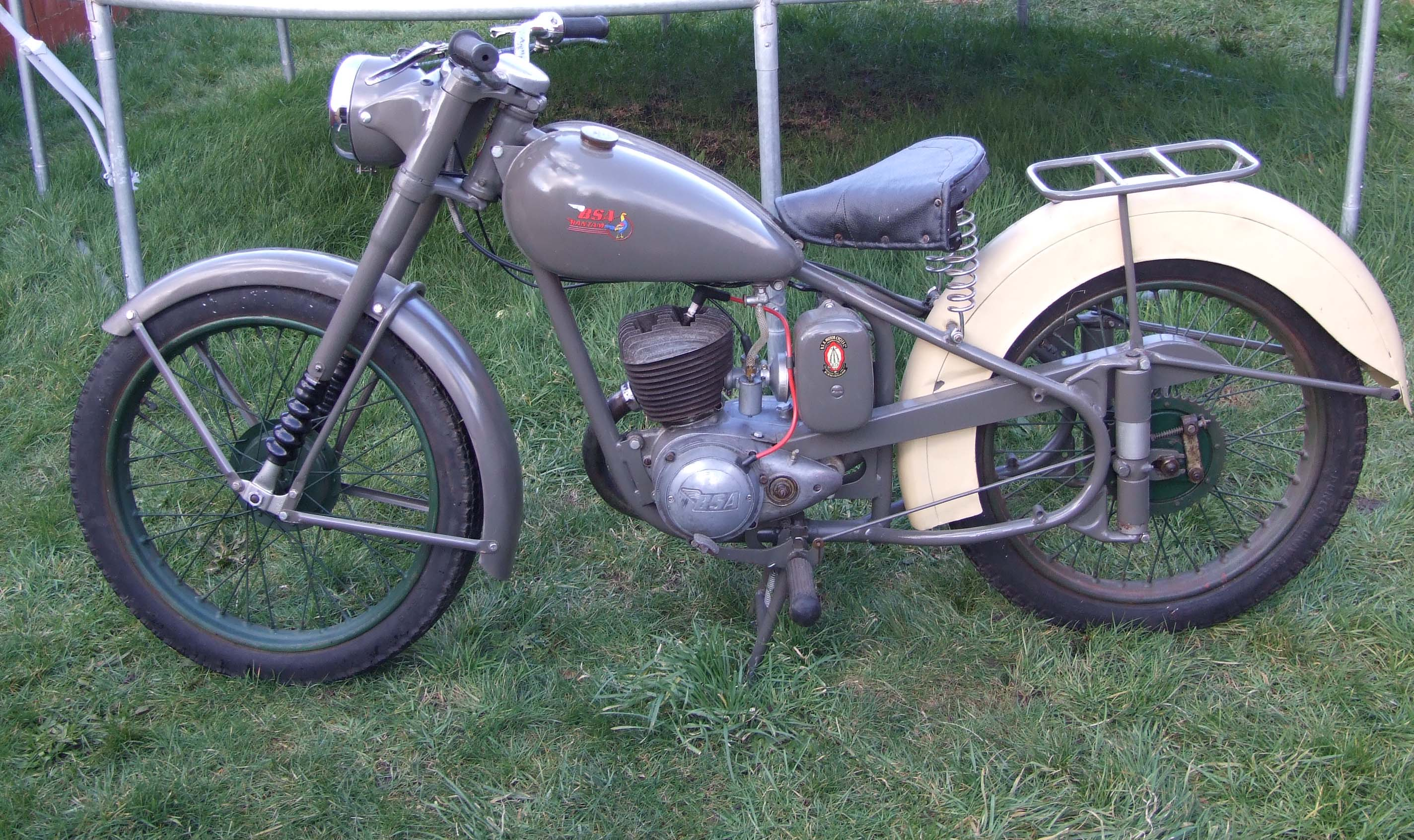 BSA Bantam D3 148cc two-stroke motorcycle